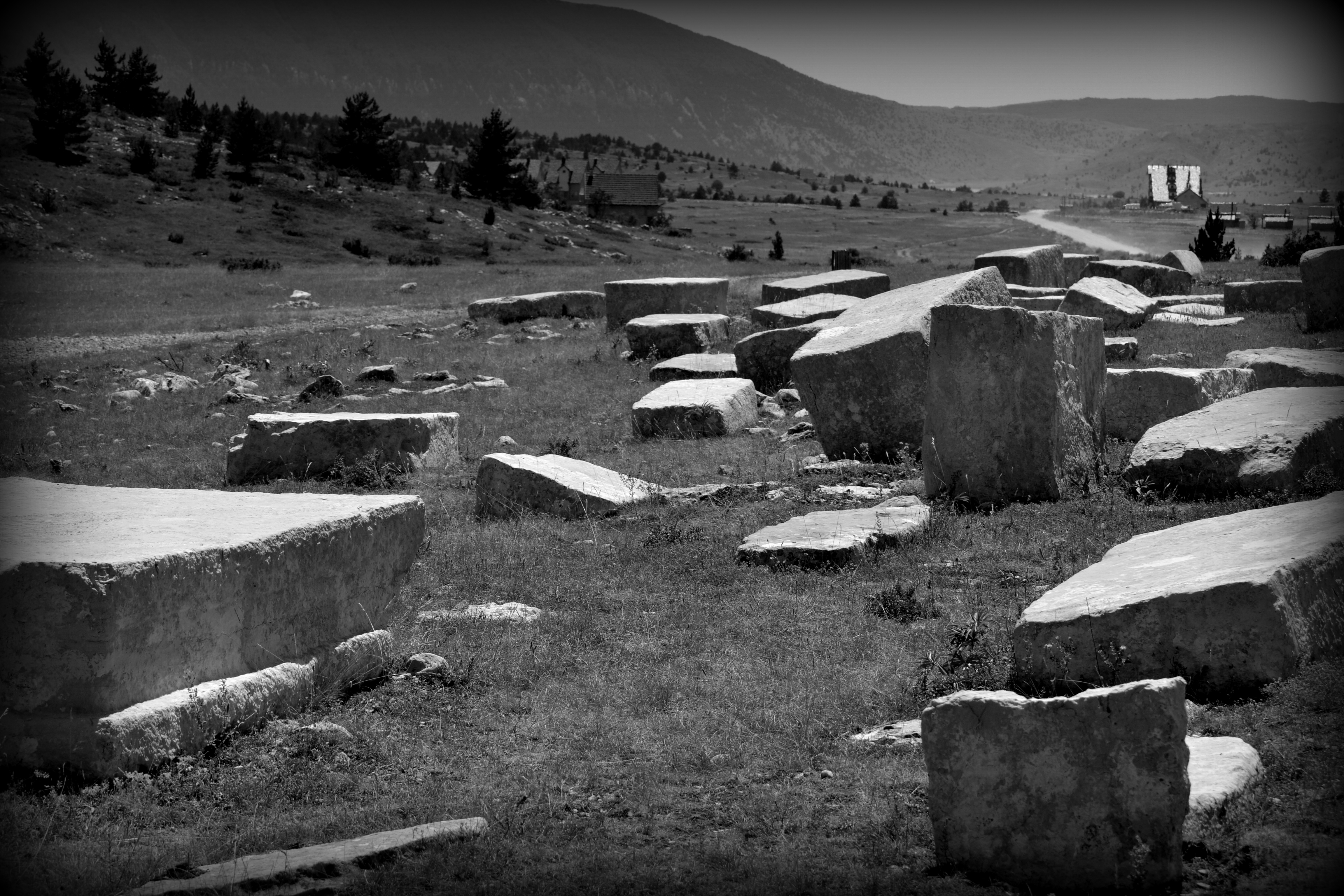 Stećci, Risovac, Municipality of Jablanica, Bosnia and Herzegovina.